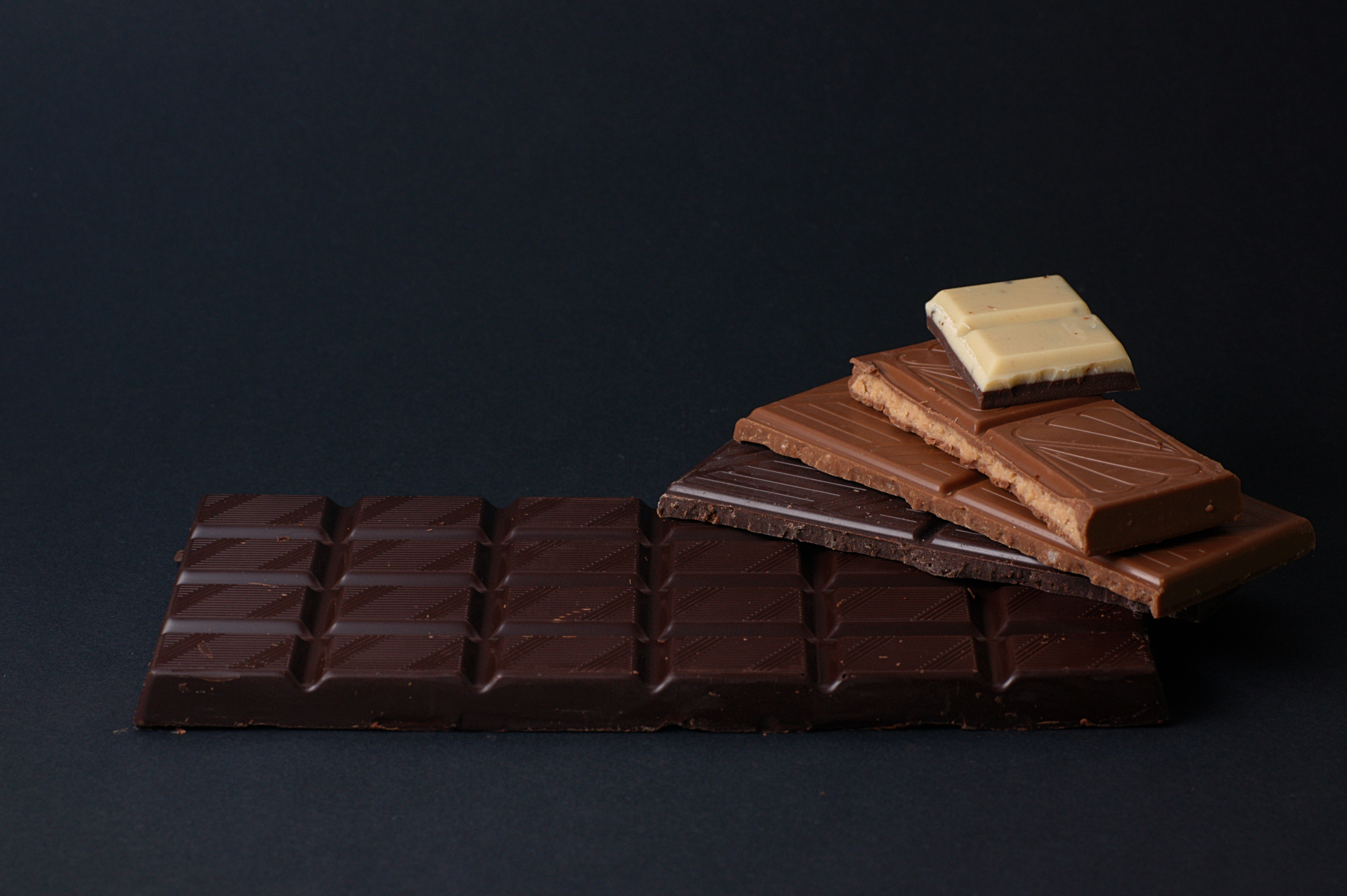 Chocolate. From bottom: Cacao 72 %, Black with Chili, Milk with caramel and pears, milk with orange centre, latte macchiato (milk and white chocolate)